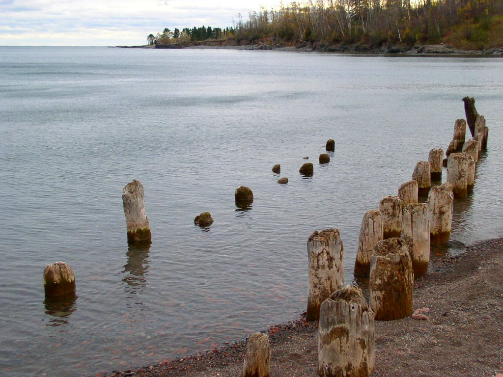 Ruins of wharf at Splitrock townsite, Split Rock Lighthouse State Park, Minnesota, USA. Splitrock was a company logging town inhabited from 1899–1906.